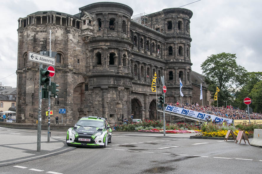 Rally Germany 2012 ADAC Rallye Deutschland,Circus Maximus,Ford Fiesta S2000,Michael Orr,Motorsport,Power Stage,Rally,Rallye,Rallye Deutschland,SS15,Trier,WP15,WRC,Yazeed Al Rajhi,Yazeed Racing